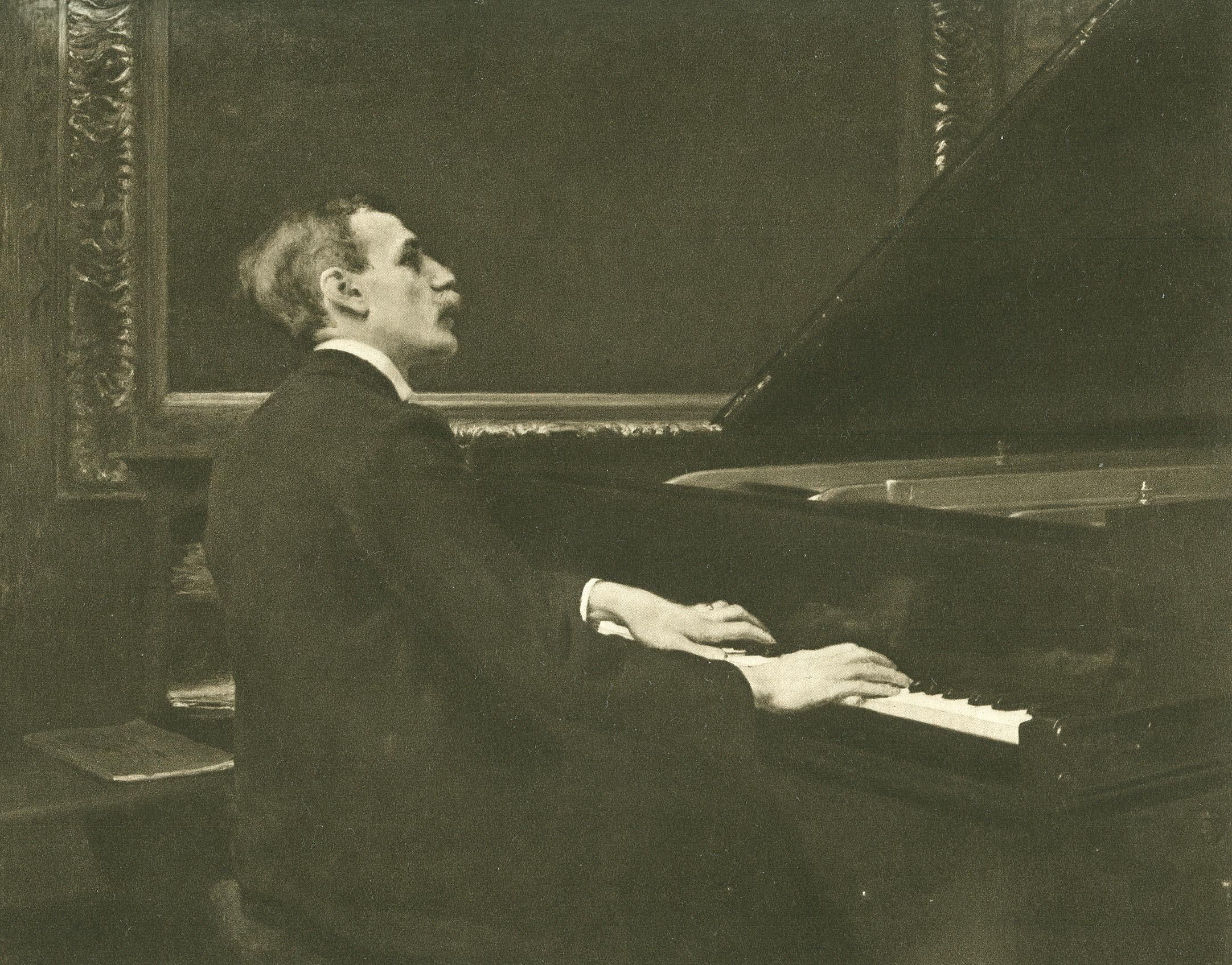 Swedish composer Wilhelm Stenhammar.